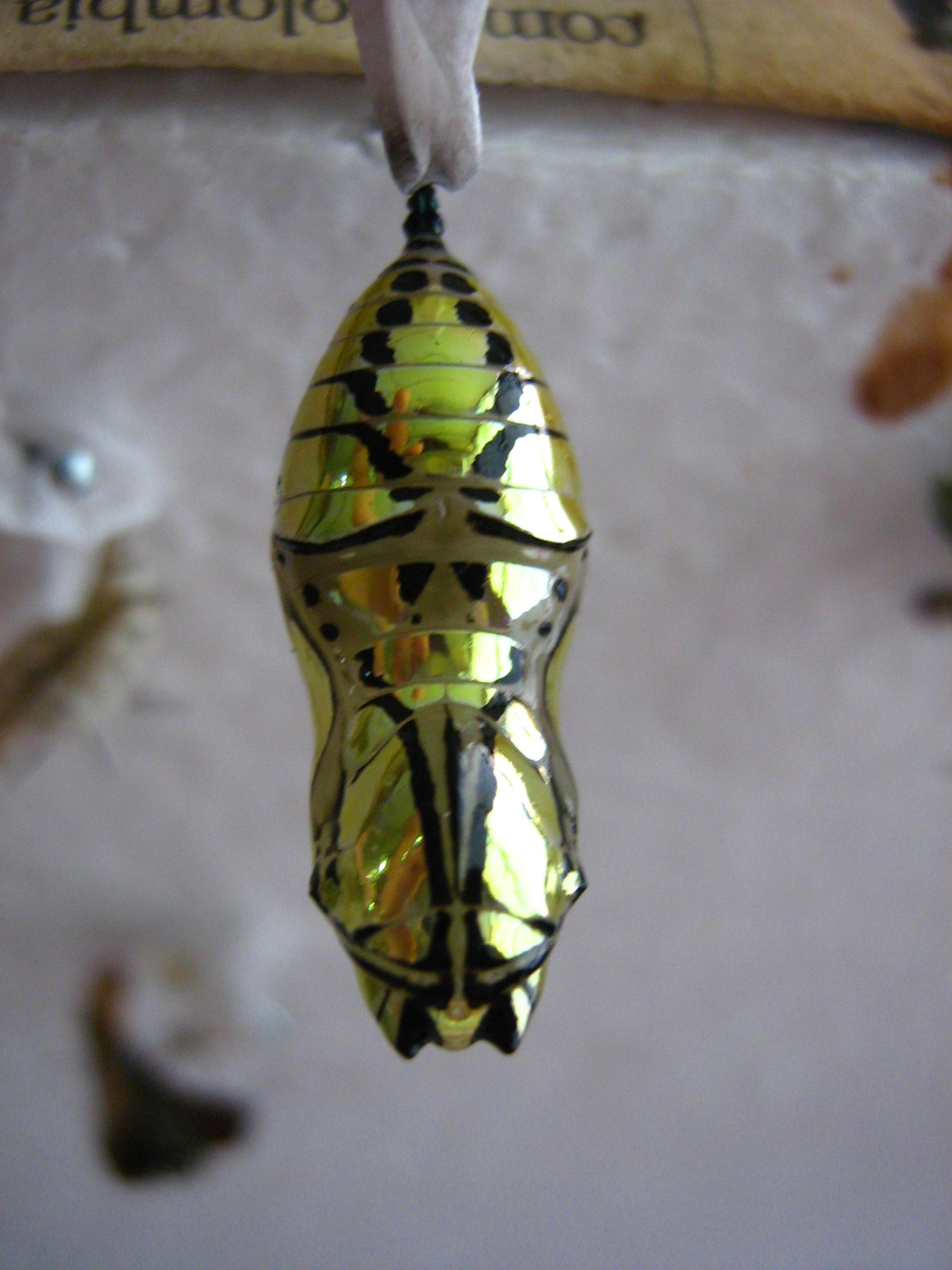 Pupa Tithorea tarricina (Hewitson, 1858)